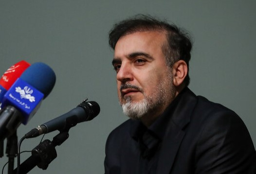 Masoud Soleimani is an Iranian who was imprisoned in the United States on October 25, 2018 without being charged.